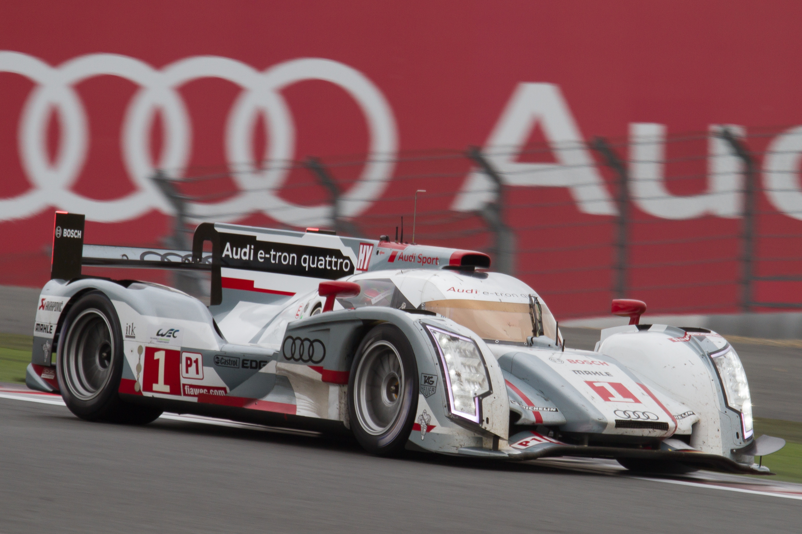 FIA World Endurance Championship 2012 Rd.7 6 Hours of Fuji: #1 Audi R18 e-tron quattro (Audi Sport Team Joest), driven by Benoît Tréluyer.